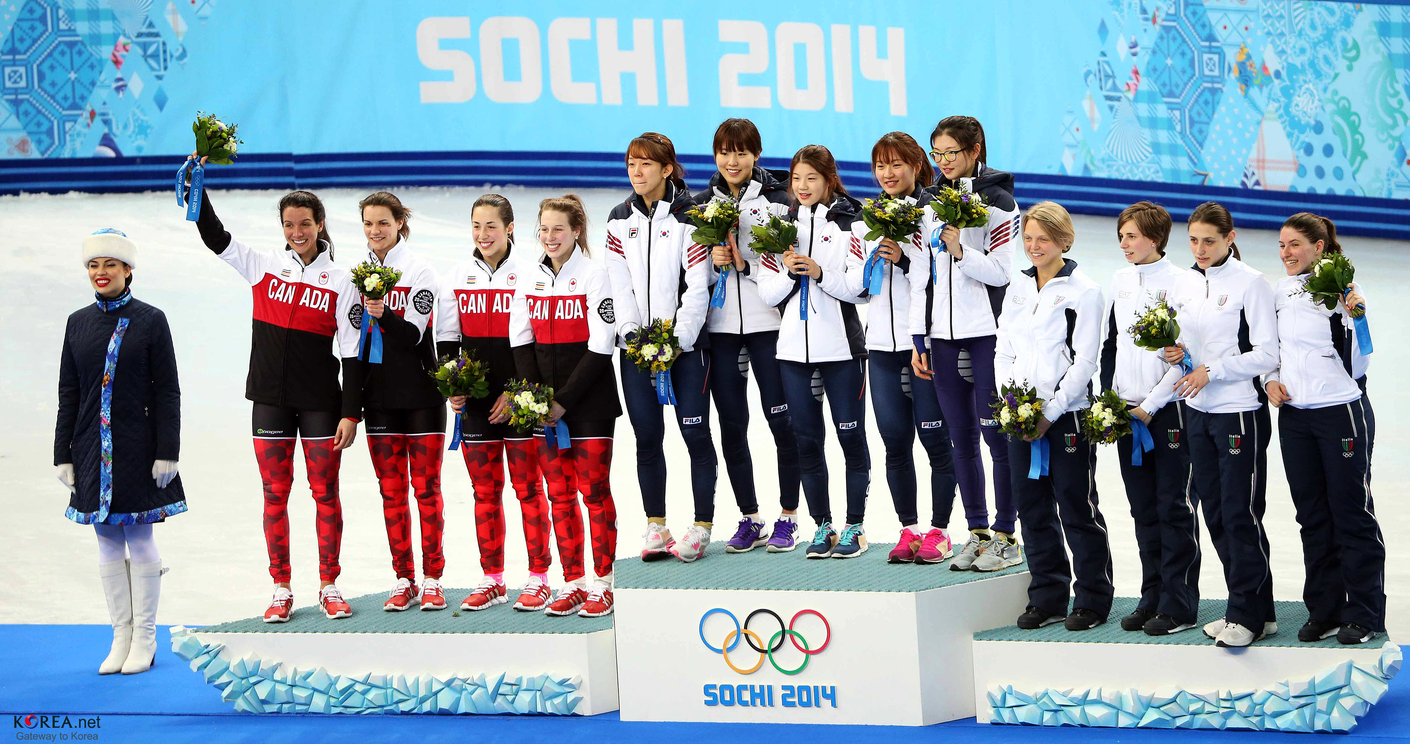 Team Korea won the gold medal in the ladies' 3,000-meter short track relay at the Sochi 2014 Olympic Games in Sochi, Russia. February 18, 2014 Iceberg Skating Palace, Sochi, Russia Photo: The Korean Olympic Committee Related Articles -English- 'Olympic Silver Medal is Invaluable': Shim Suk-hee -Russian- «Серебряная олимпийская медаль бесценна», - Шим Сук Хи -Deutsch- ,Olympische Silbermedaille ist von unschätzbarem Wert‘: Shim Suk-hee -日本語- シム・ソッキ、「五輪銀メダルに満足」 한국 쇼트트랙 여자 대표팀 ‘2014 소치 동계올림픽’ 쇼트트랙 여자 3000m 계주 금메달 획득 2014-02-18 러시아, 소치. 아이스버그 스케이팅 팰리스 사진: 대한체육회